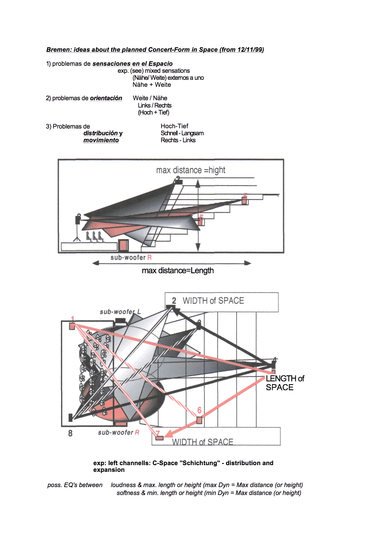 Bernardo Kuczer Bremen Concert 1999 Space Conception